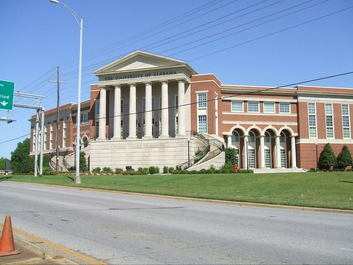 The Capstone College of Nursing on the University of Alabama campus in Tuscaloosa, AL.